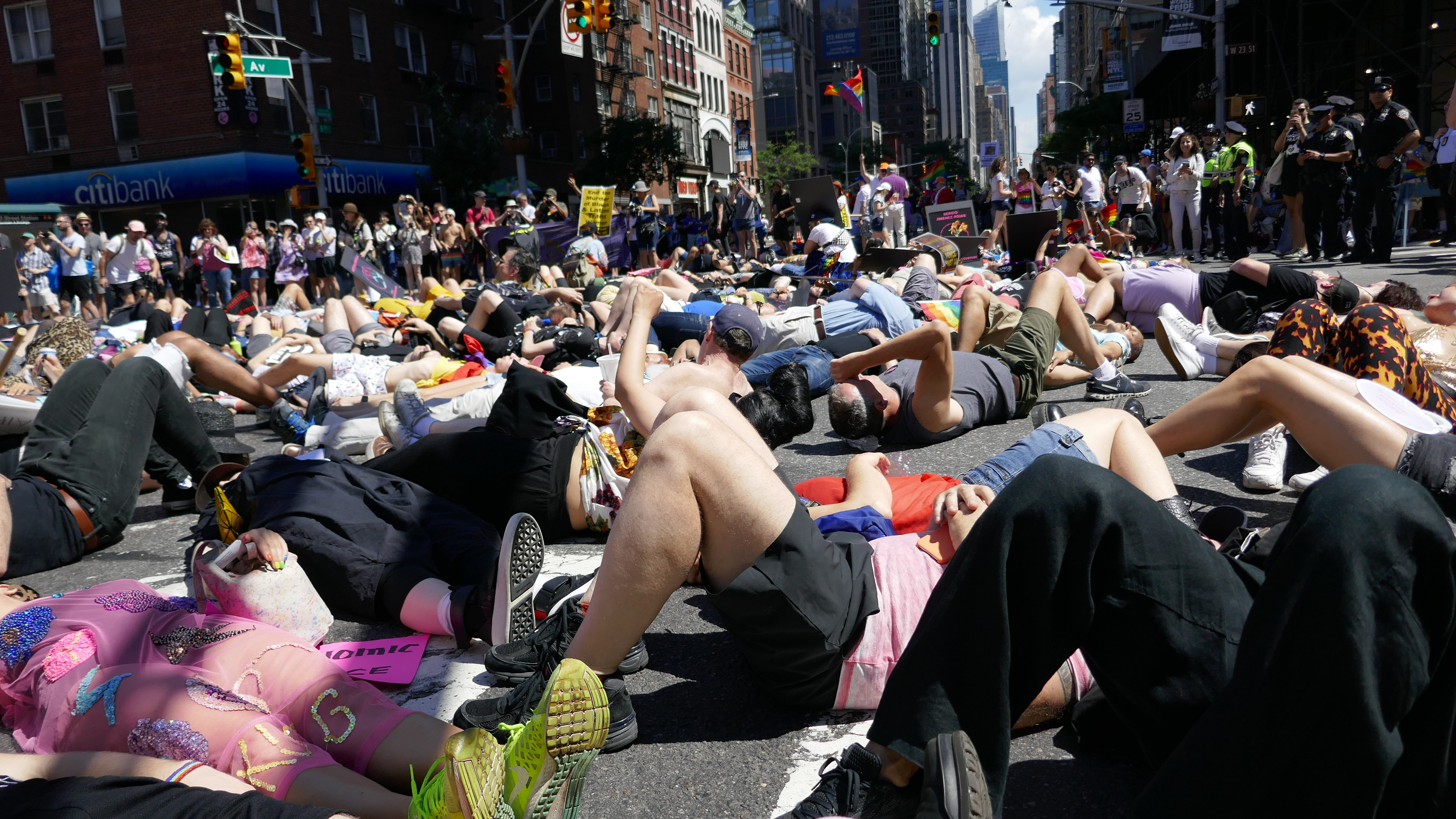 Die-in at the Queer Liberation March in New York City, June 30, 2019, at 6th Avenue and 23rd Street #QueerLiberationMarch #Stonewall50 #WikiLovesPrideLocation: USA, New York CityEvent type: Queer Liberation MarchDate or year: 2019